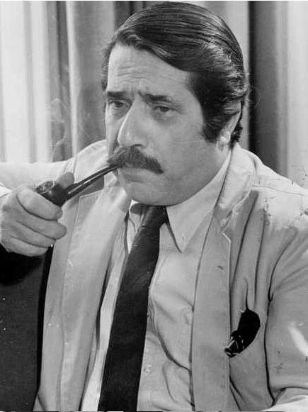 Writer Ennio Flaiano in 60s